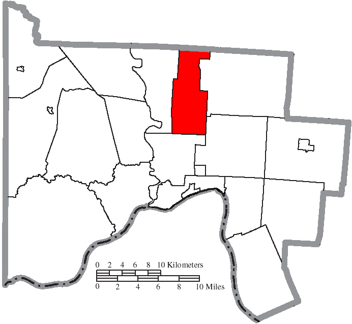 Map of the municipal and township boundaries of Scioto County, Ohio, United States, as of the 2000 census, with the location of Jefferson Township highlighted. Township borders are shown only in unincorporated areas in order to differentiate incorporated and unincorporated areas more clearly.